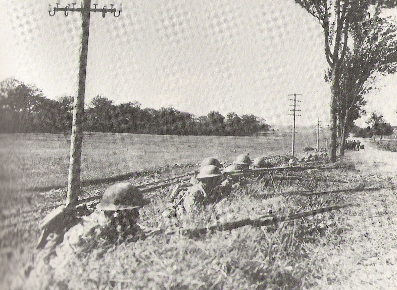 Company B of the the 69th Infantry dug in near Hassavant Farm, their final objective in the St. Mihiel Offensive